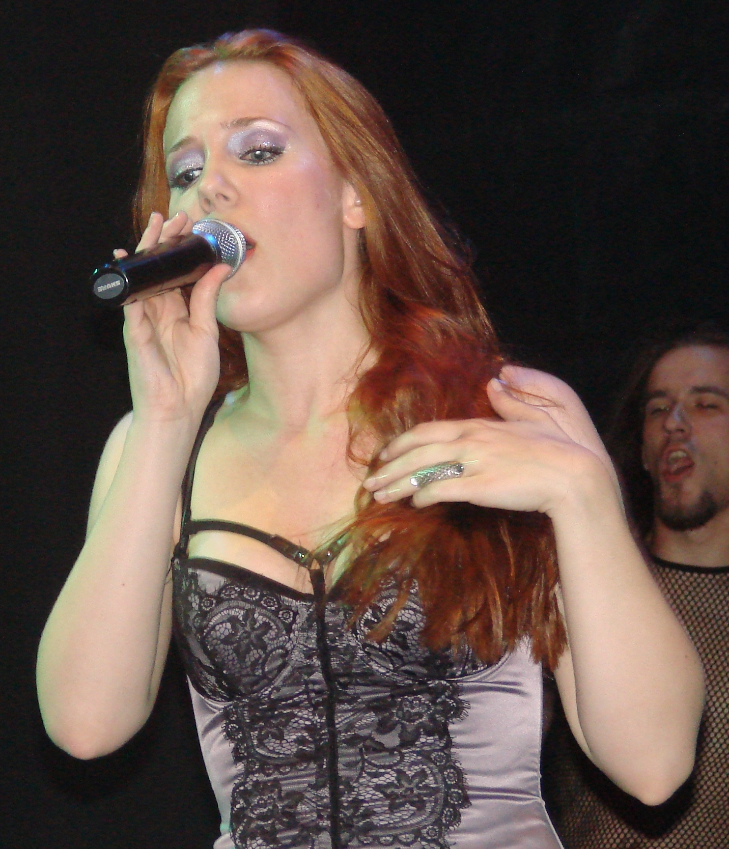 Simone Simons, singer of Dutch symphonic metal band Epica, during a concert done in ND Ateneo theatre in Buenos Aires, Argentina on April 30, 2007.